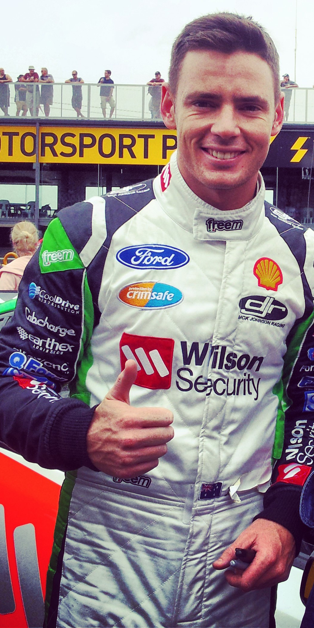 Scott Pye at the 2014 V8 Supercars Test Day